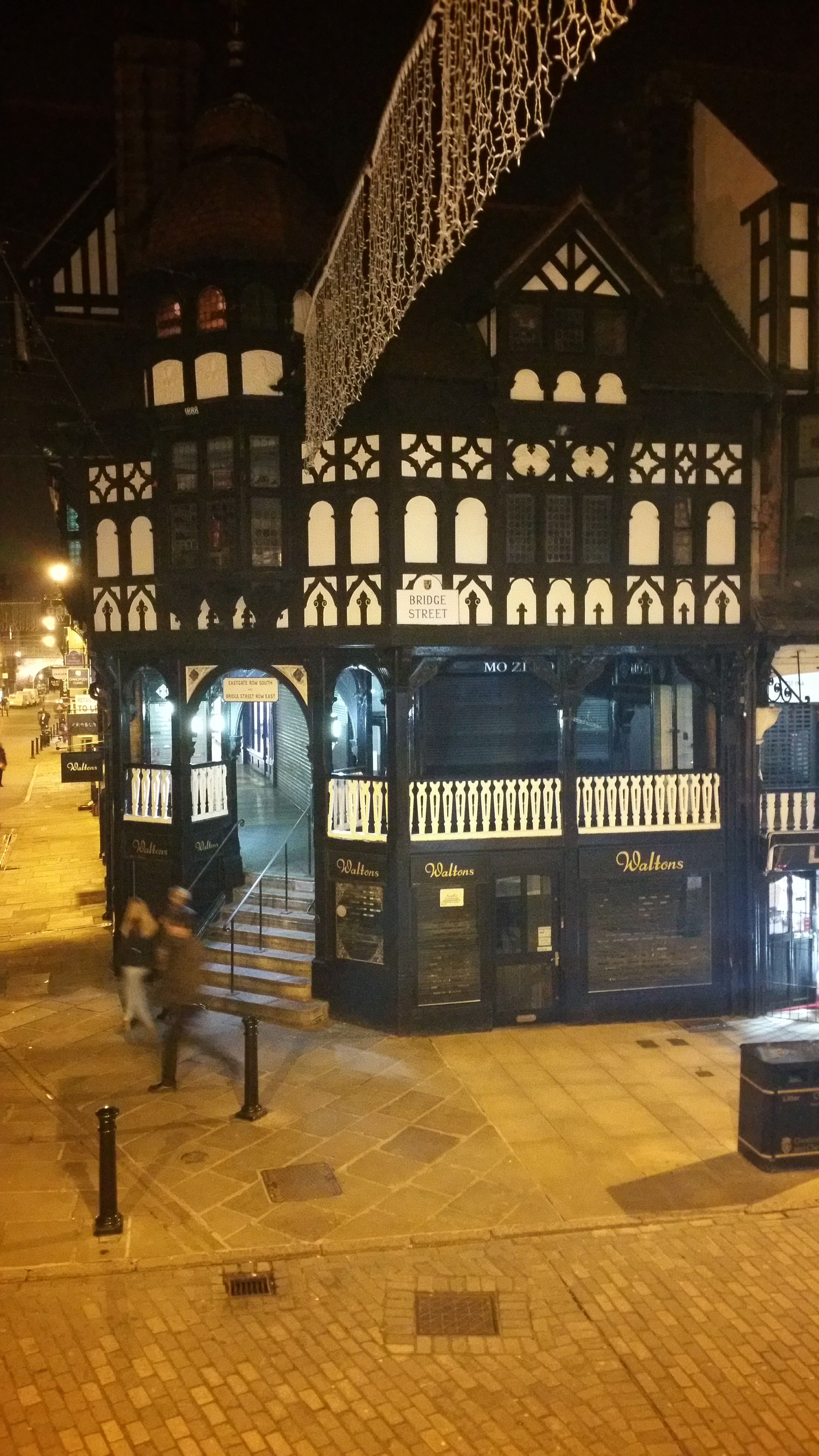 Detailed Picture of 1 Bridge Street in Chester